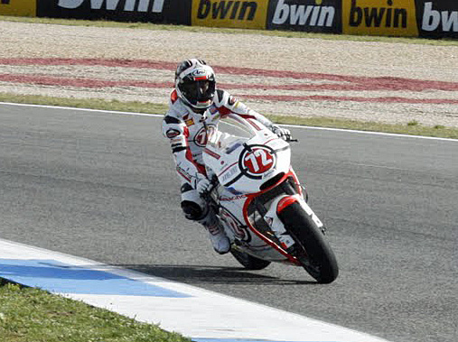 Yuki Takahashi 2011 Estoril